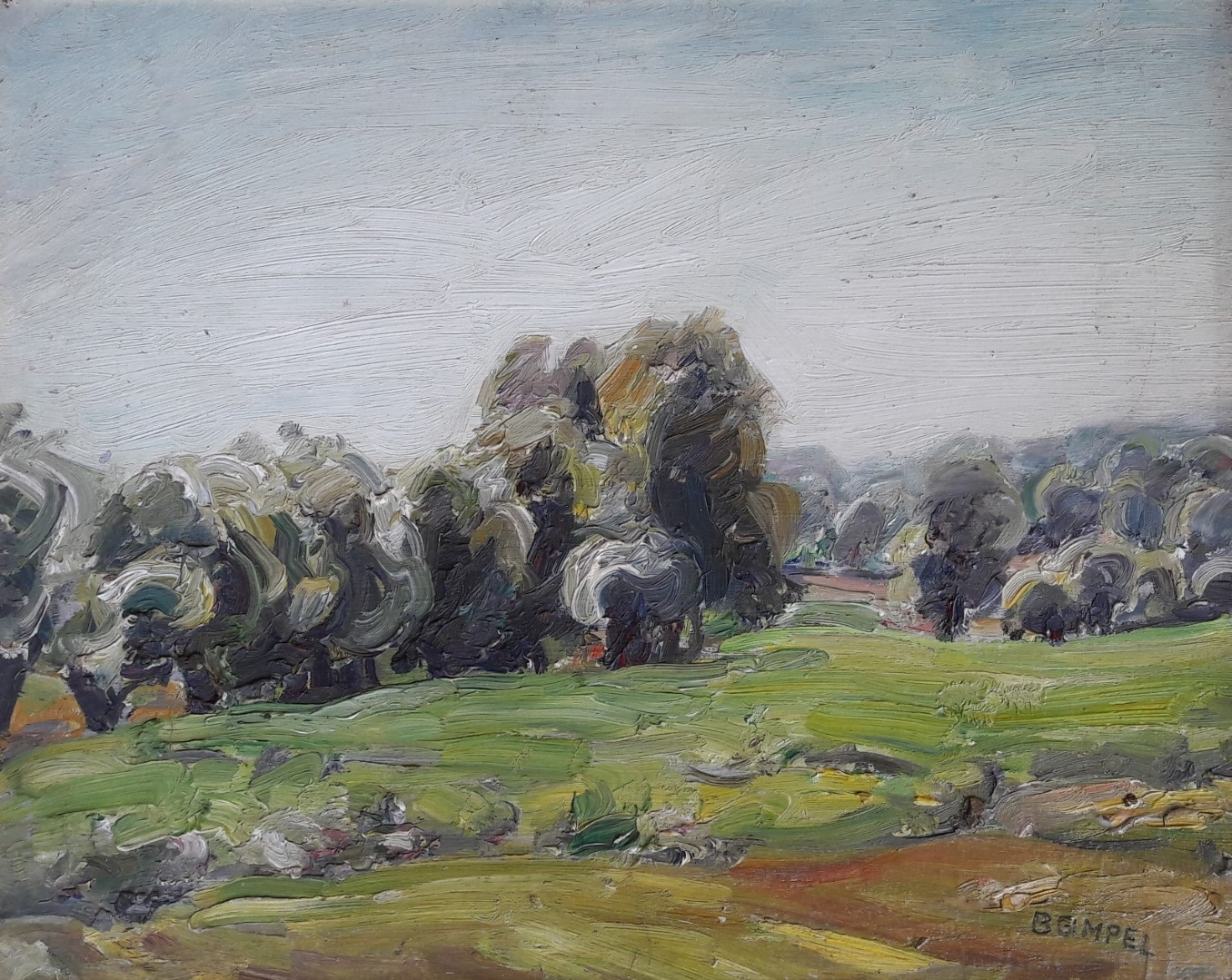 landscape